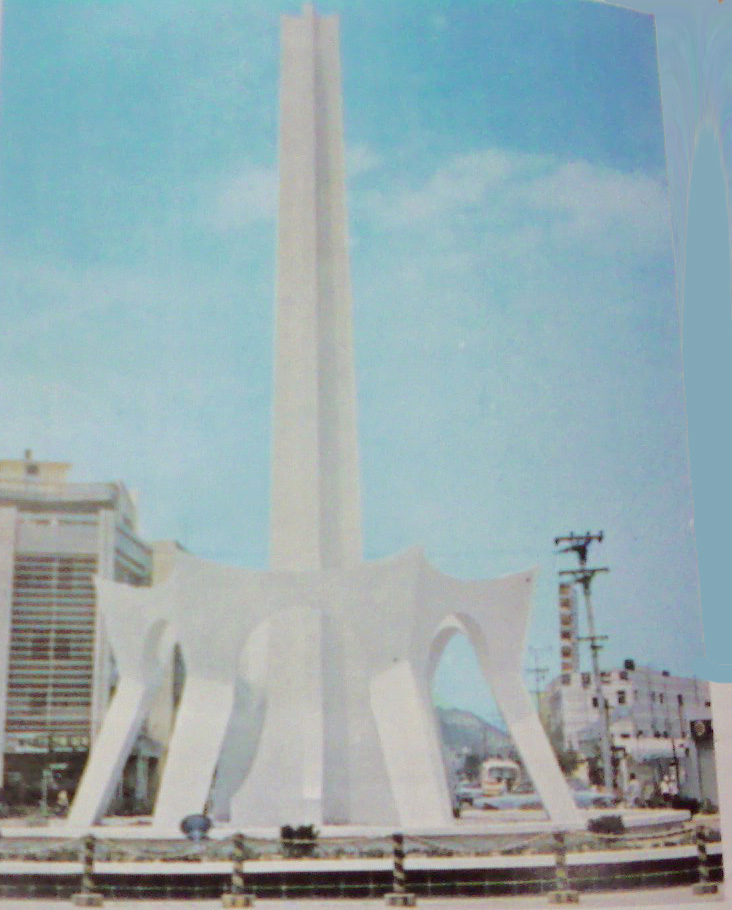 Pohang five distance civil towers